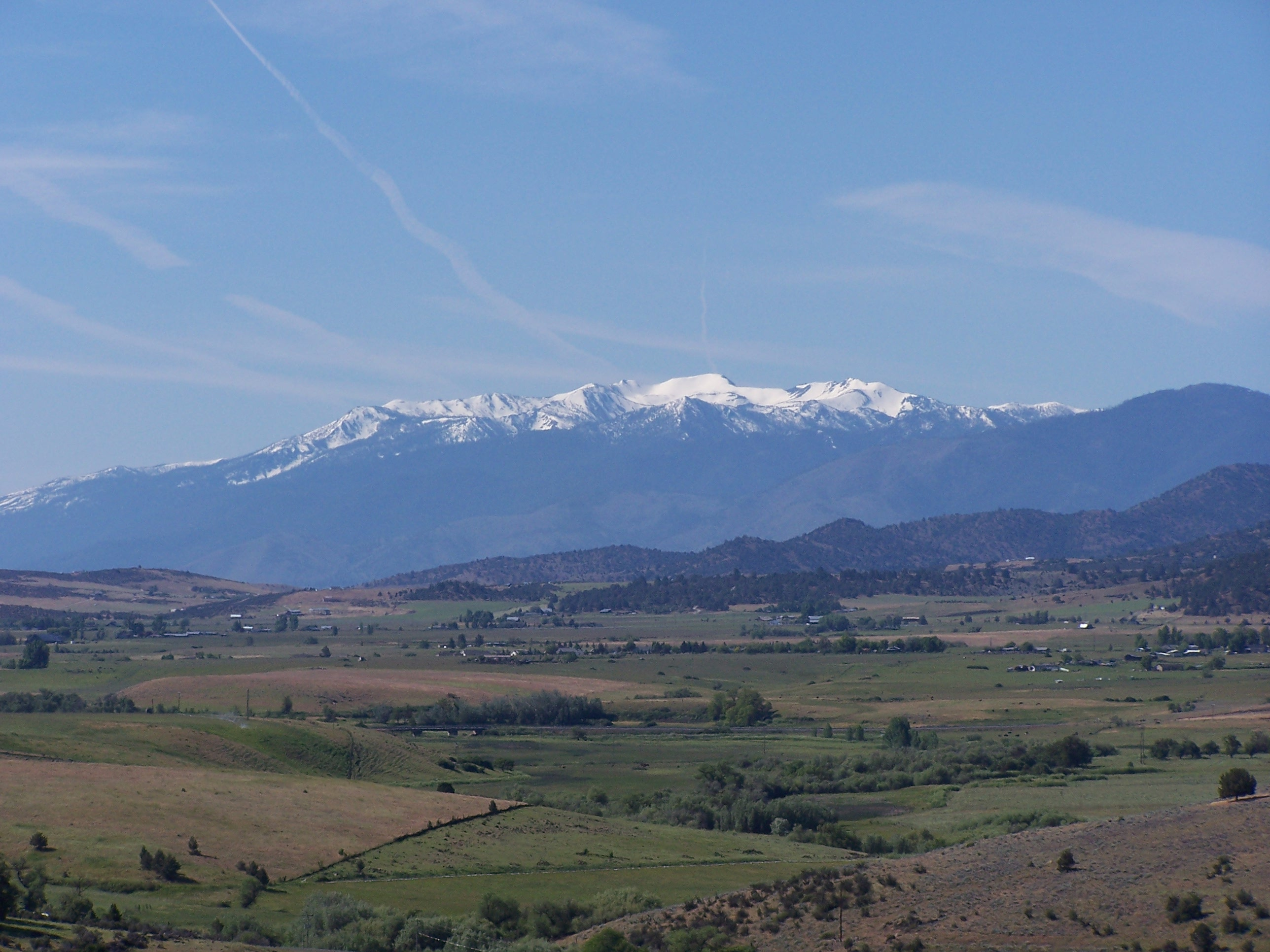 Looking south at Mount Eddy from a vista point on southbound I-5.